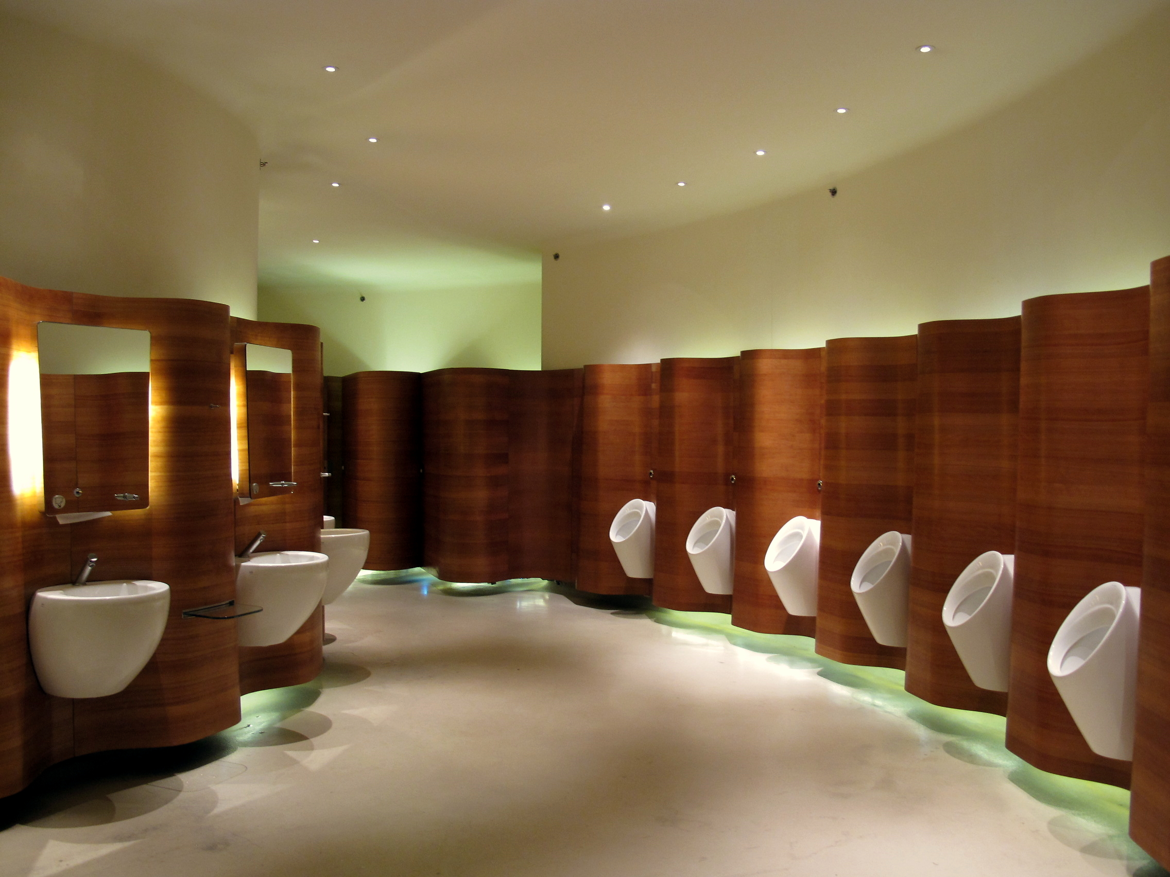 Pacific Place Washroom